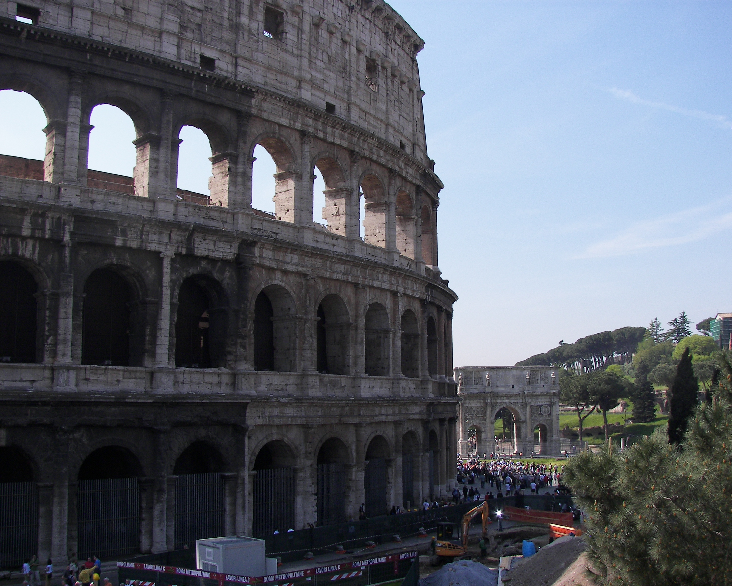 Colosseum in Rome with the Arch of Constantine in the background.